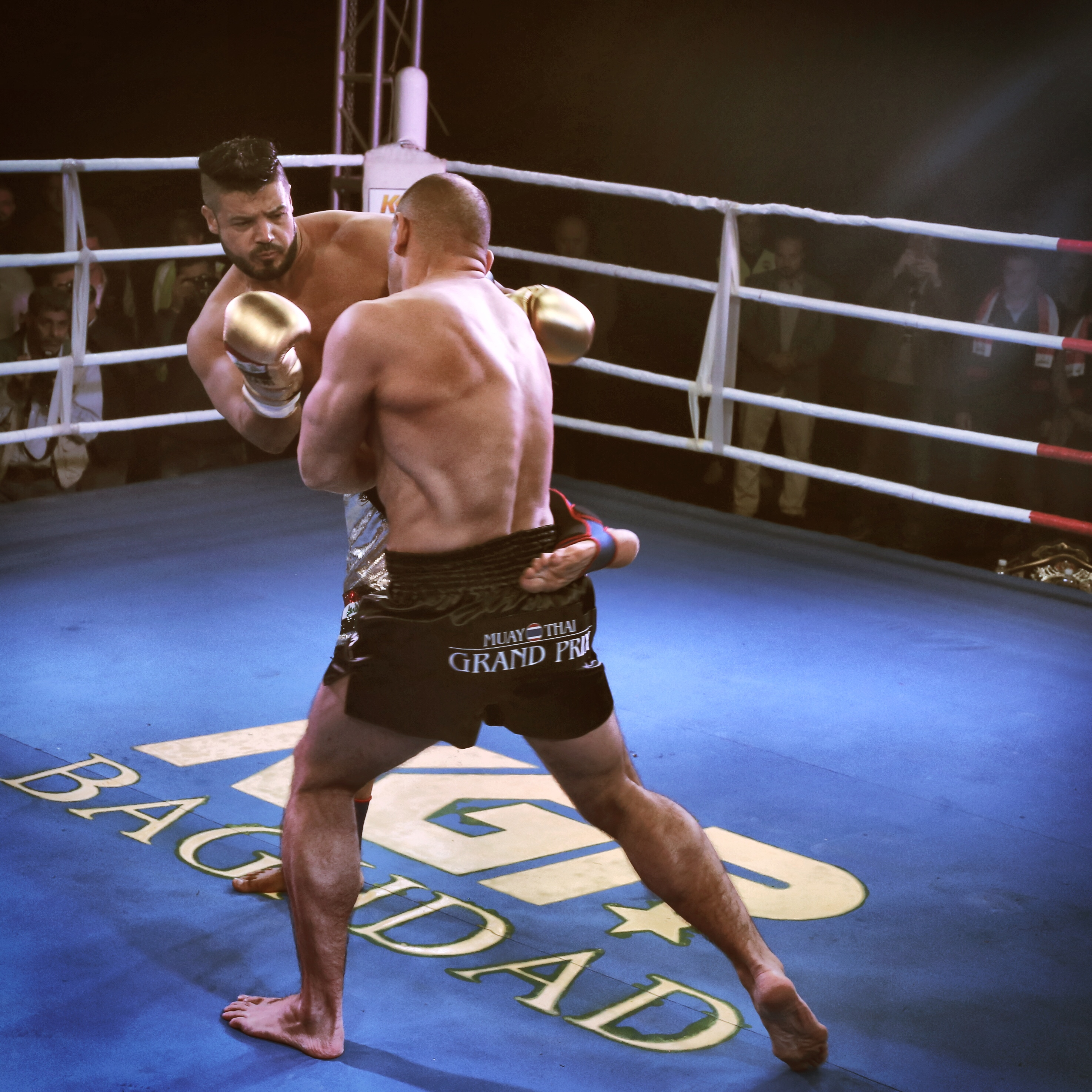 Riyadh Alazzawi defending his world heavyweight kickboxing title for the 7th time in Baghdad, Iraq